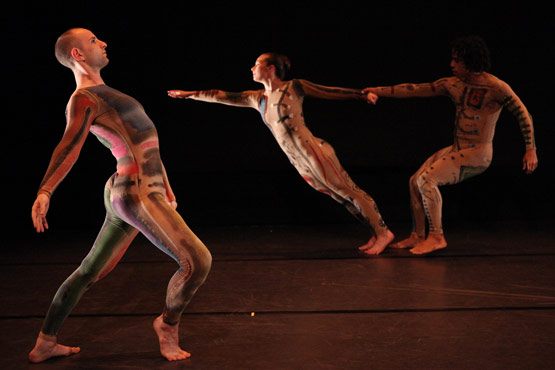 Eryc Taylor Dance performs at Dancers For Good.